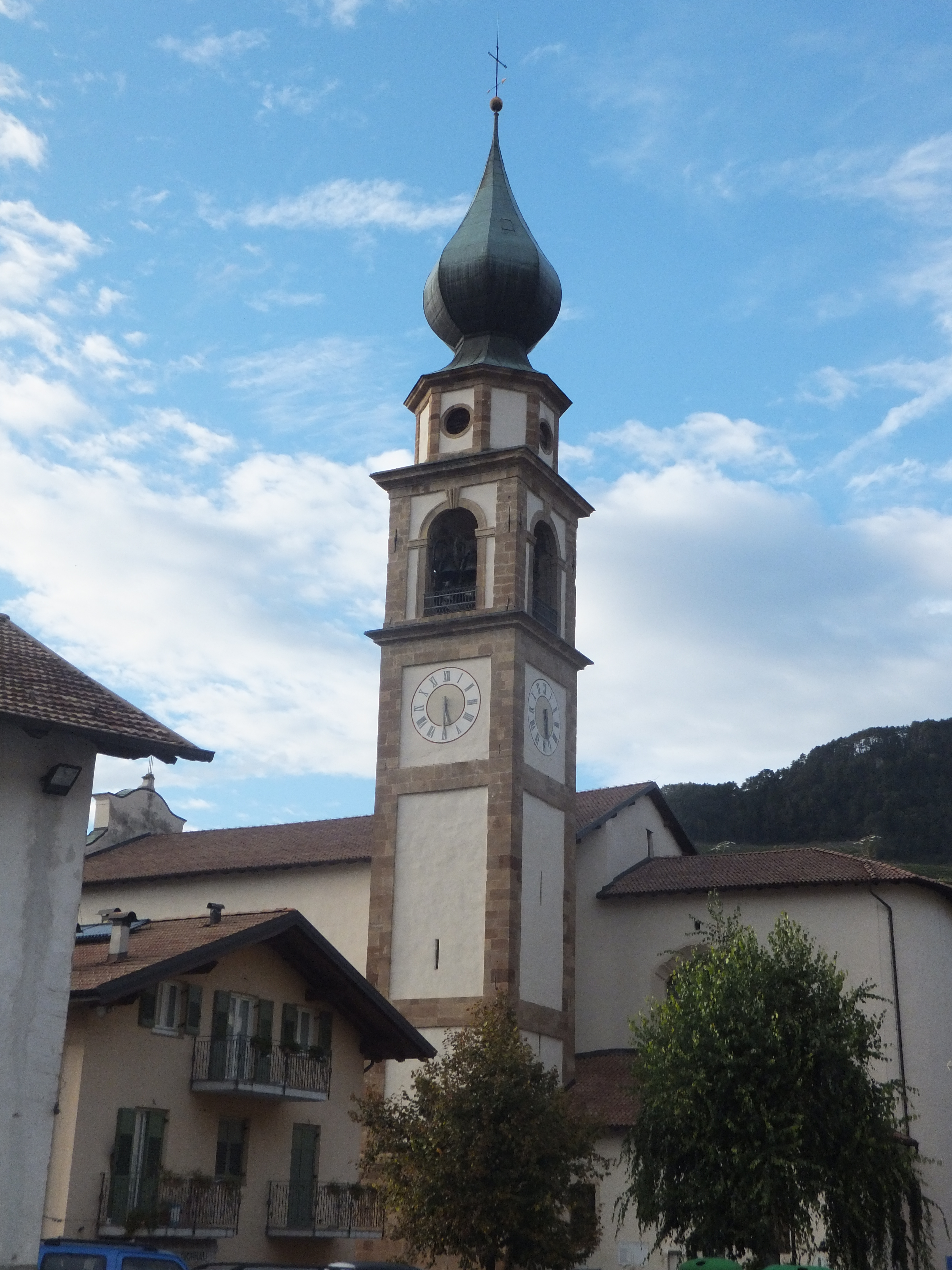 Verla (Giovo, Trentino, Italy) - Church of the Assumption - Belltower